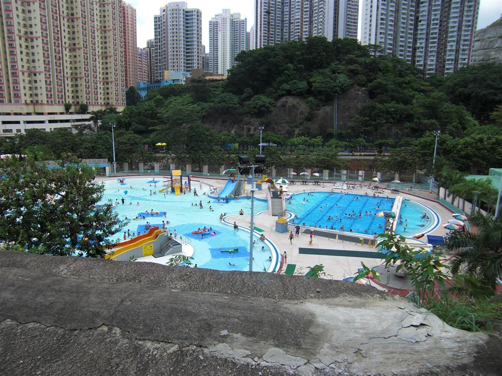 Looking towards the north from Jordan Valley Playground. Jordan Valley Swimming Pool's Leisure Pool and Sun Bathing Area are seen. Amoy Gardens stands in the background.